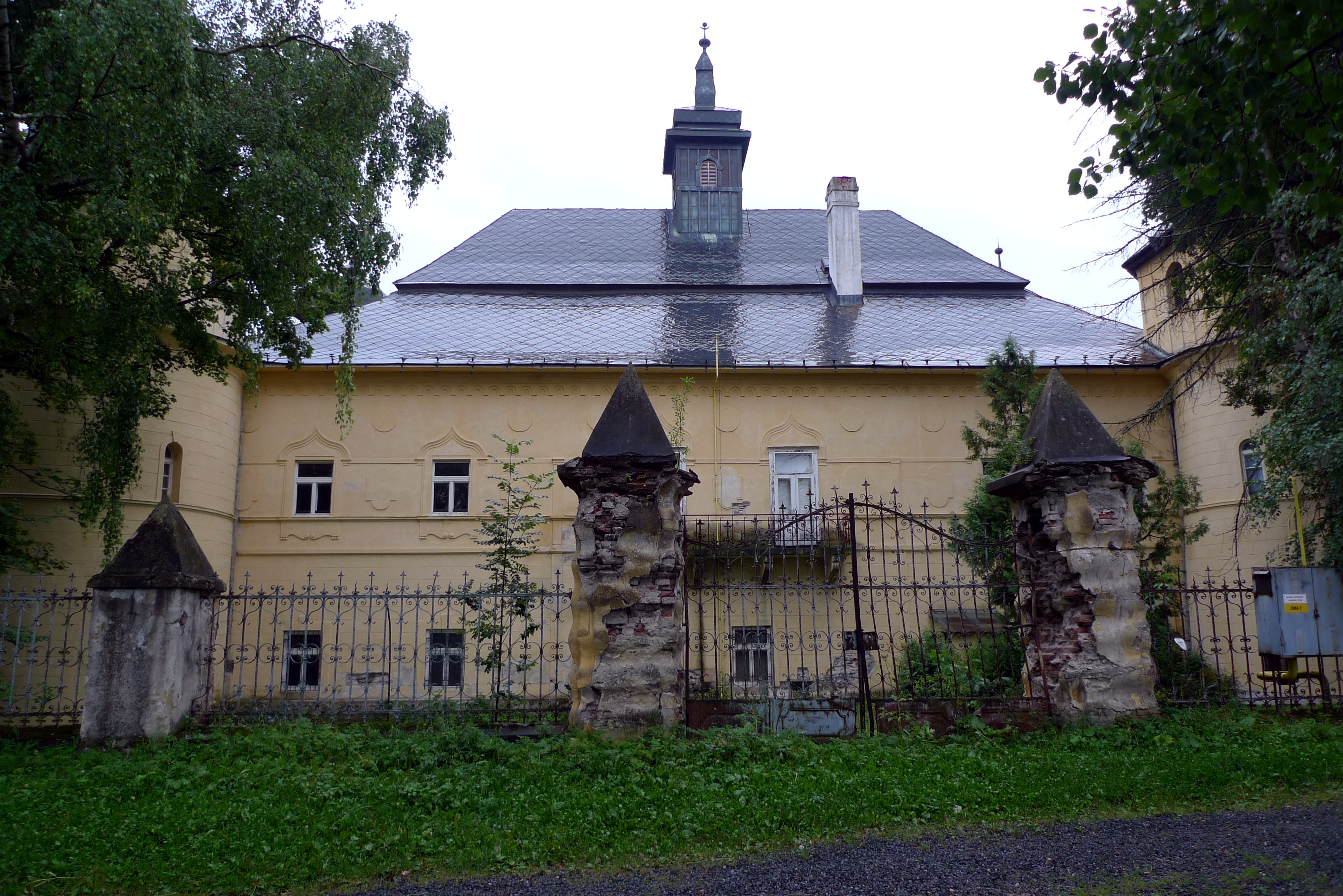 Castle Spišský Štiavnik in Kaštiel, Slovakia Česky: Zámek Spišský Štiavnik v osadě Kaštiel na Slovensku This medium shows the protected monument with the number 706-971/0 in the Slovak Republic.